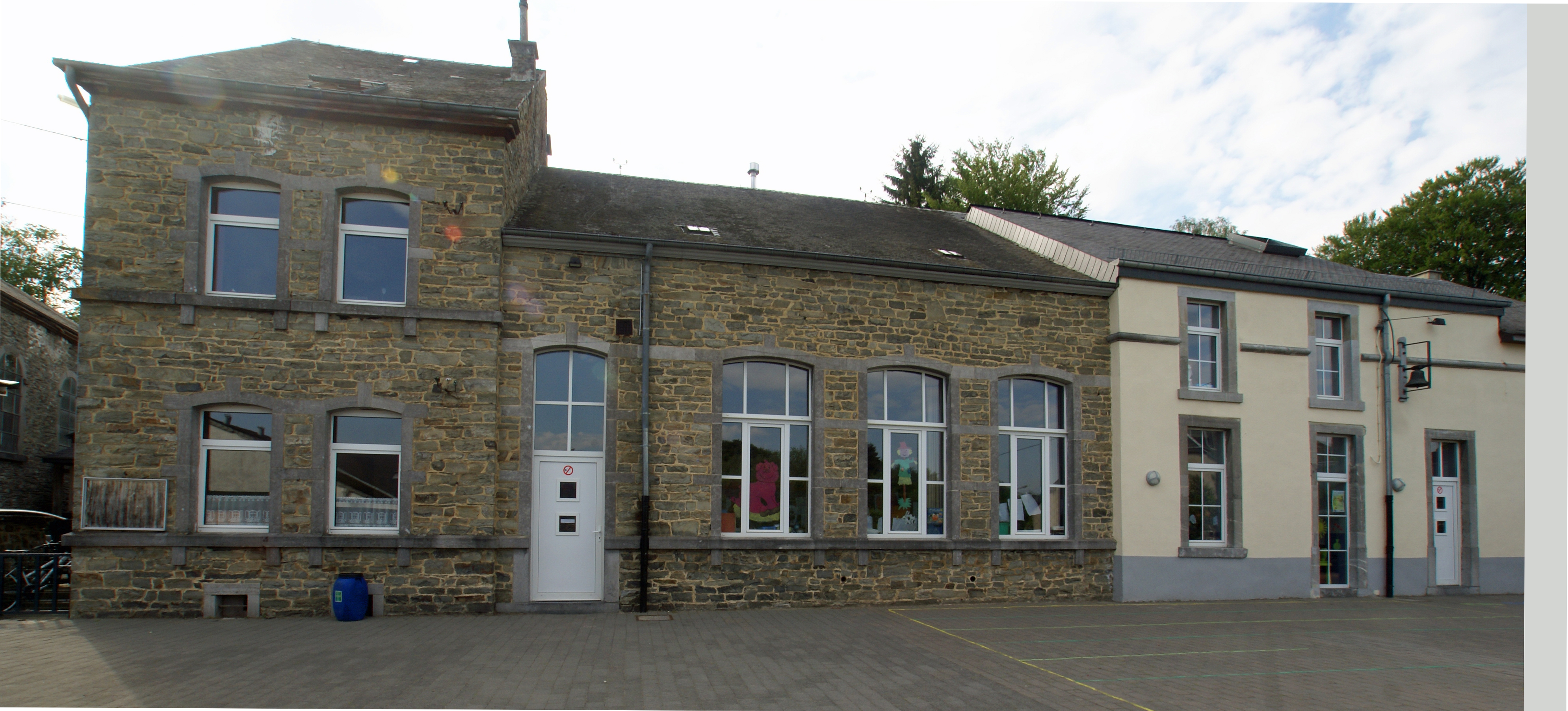 Neufchâteau (Grandvoir), Belgium: School